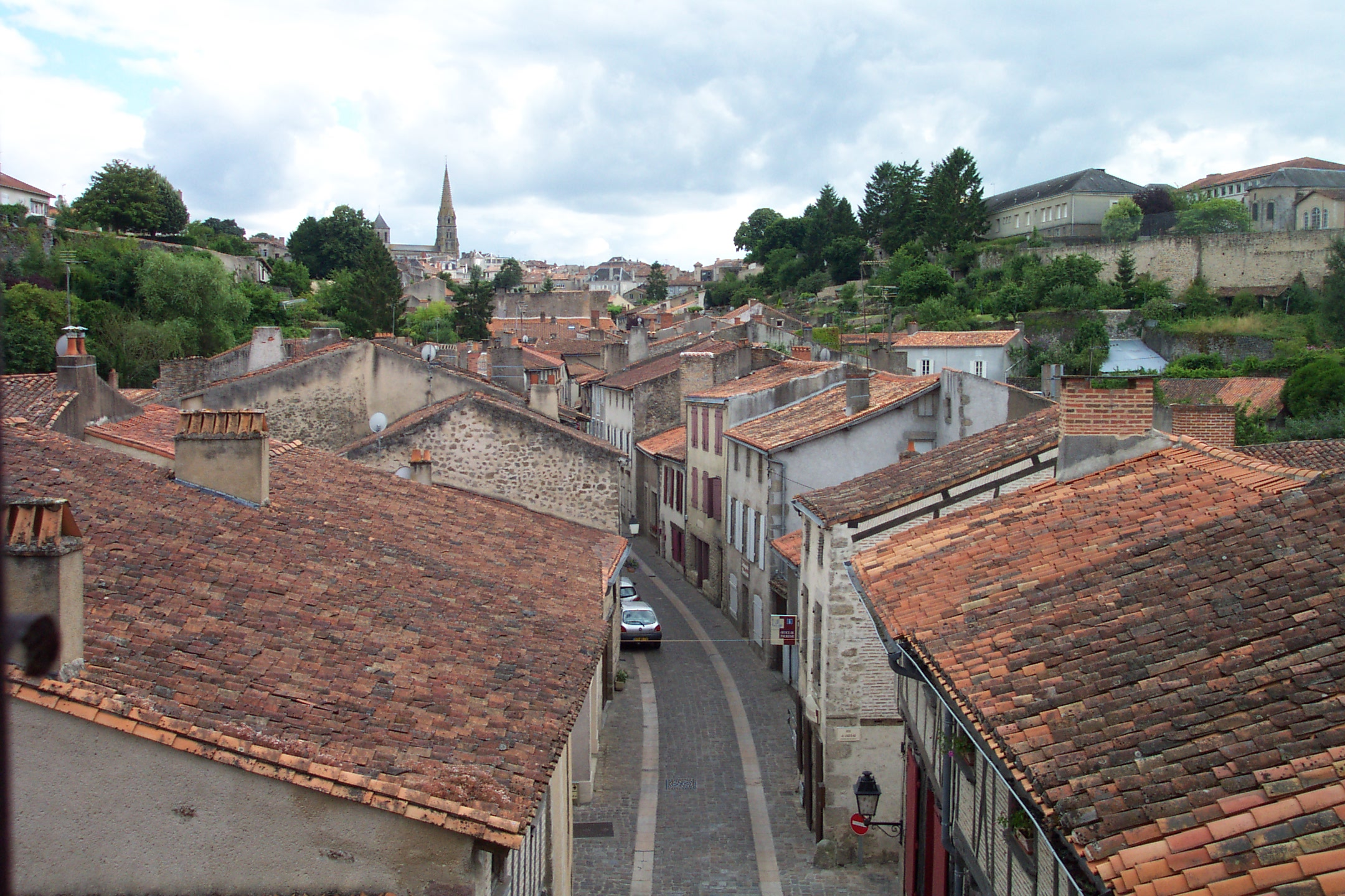 The Rue de la Vau Saint-Jacques in Parthenay, photographed from the upper chamber of the Saint-Jacques Gate, and looking up the hill to the town centre. The eastern wall of the citadel can be seen to the upper right. For more information, see the Wikipedia article Parthenay.